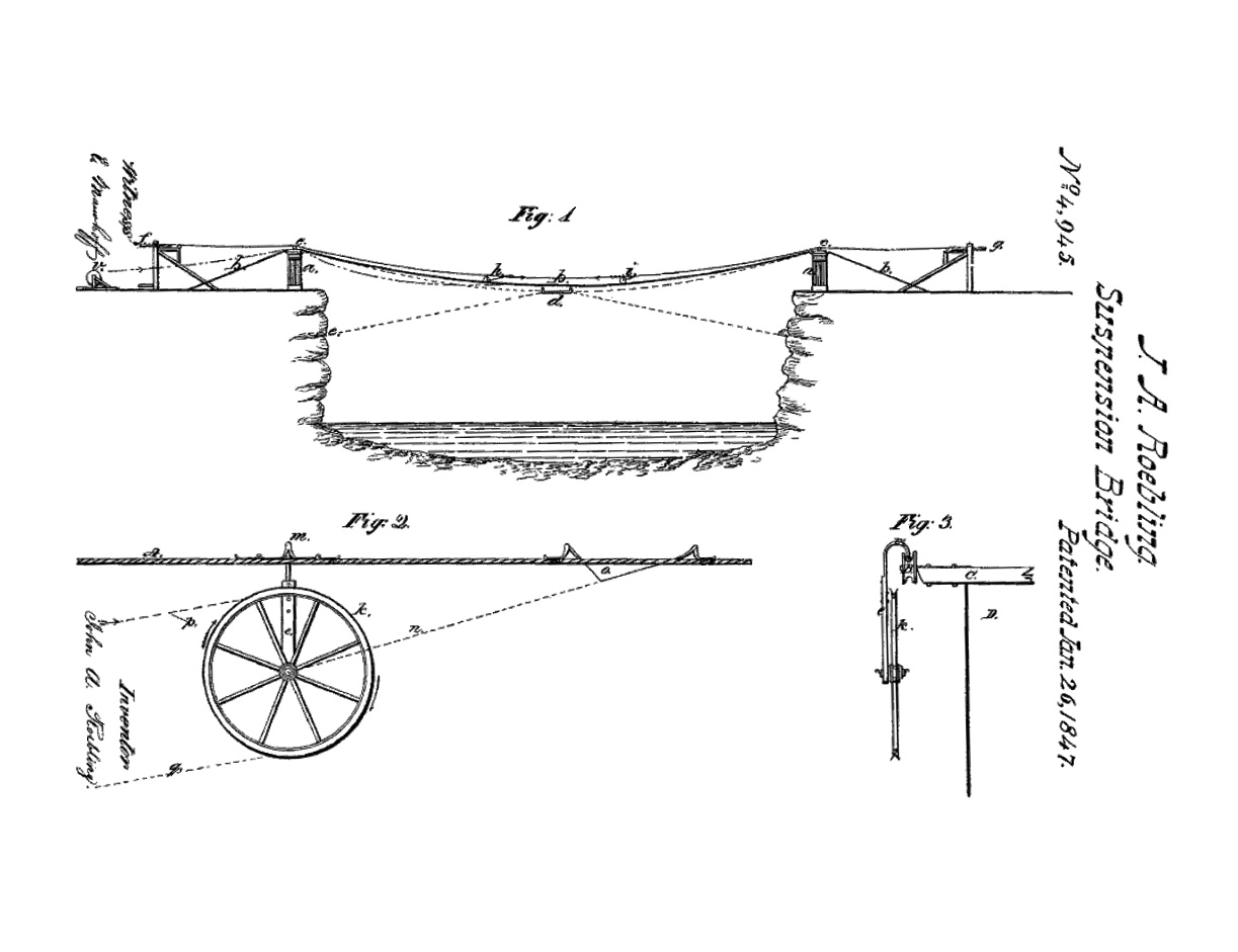 John Roebling's patent for his apparatus to draw wires across gaps by means of traveling sheaves; this is one part of the process used in the construction of the Niagara Falls Suspension Bridge.